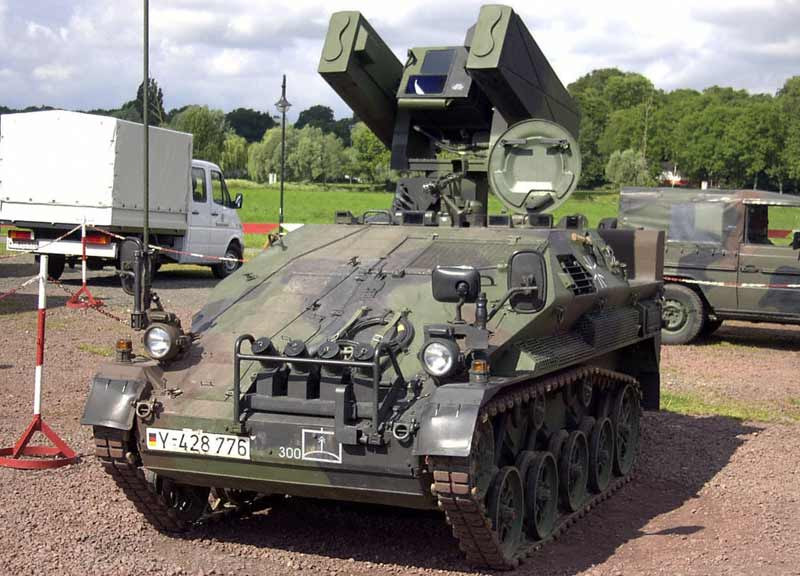 Wiesel 2 LeFlaSys Launcher